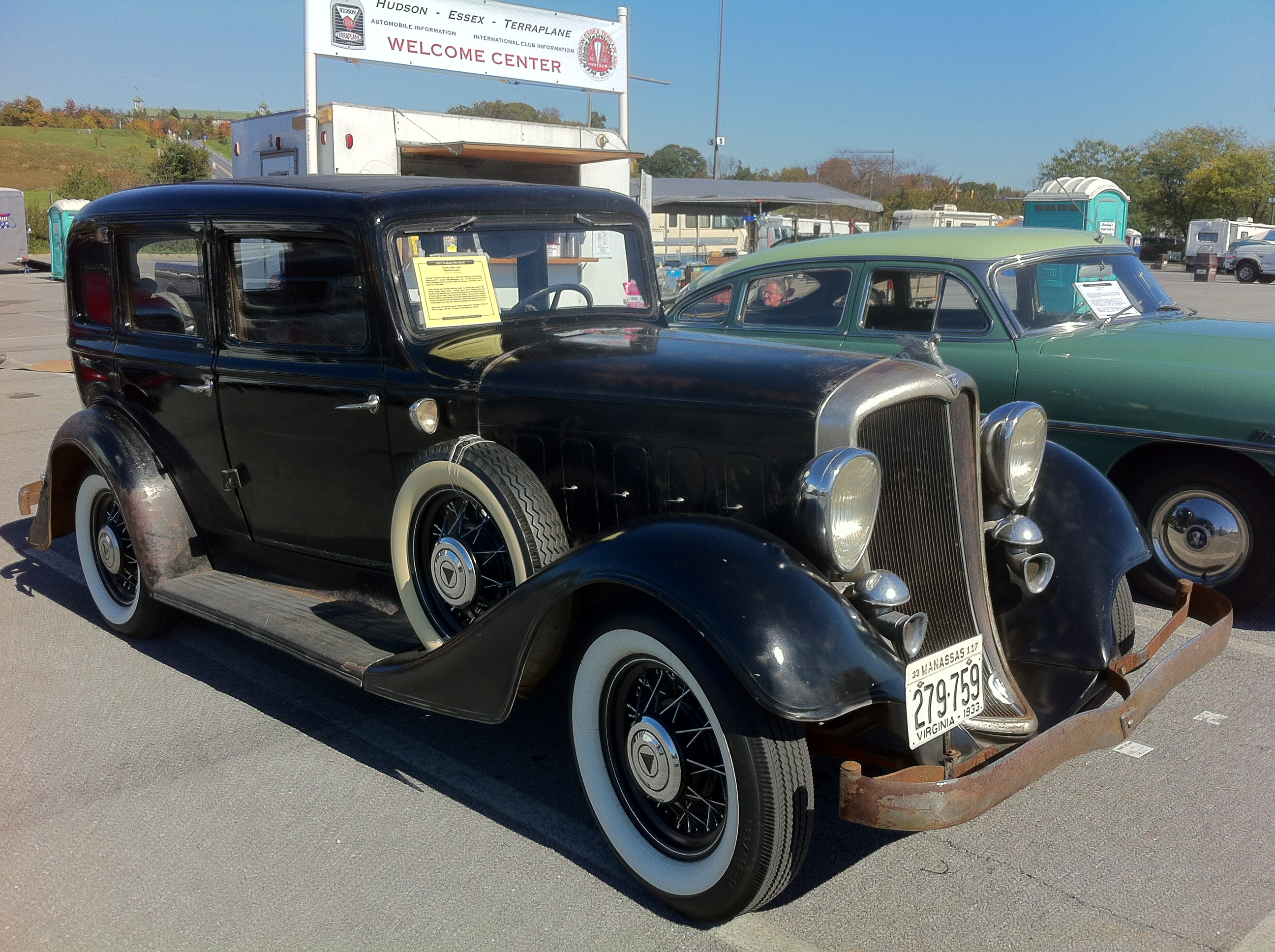 1933 Hudson Super Six Pacemaker sedan. Picture taken at the Antique Automobile Club of America (AACA) 2012 Hershey meet in October in front of the Hudson-Essex-Terraplane Club display area.